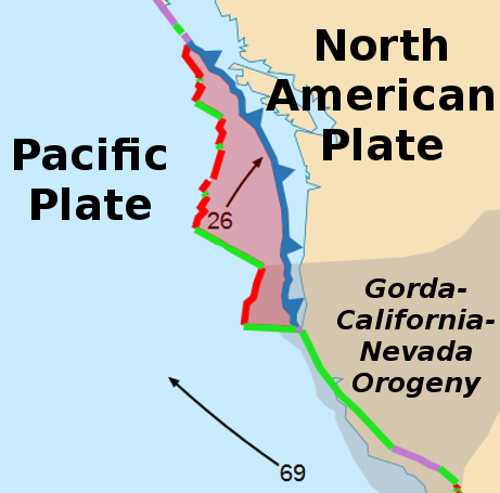 A map of the Juan de Fuca plate